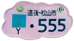 Japanese license plate for motorcycles (over 250cm³). The plate size is smaller than an ordinary vehicle plate. This license plate is registered to Matsuyama, Ehime. 2009 cloud-shaped Matsuyama motorcycle license plate